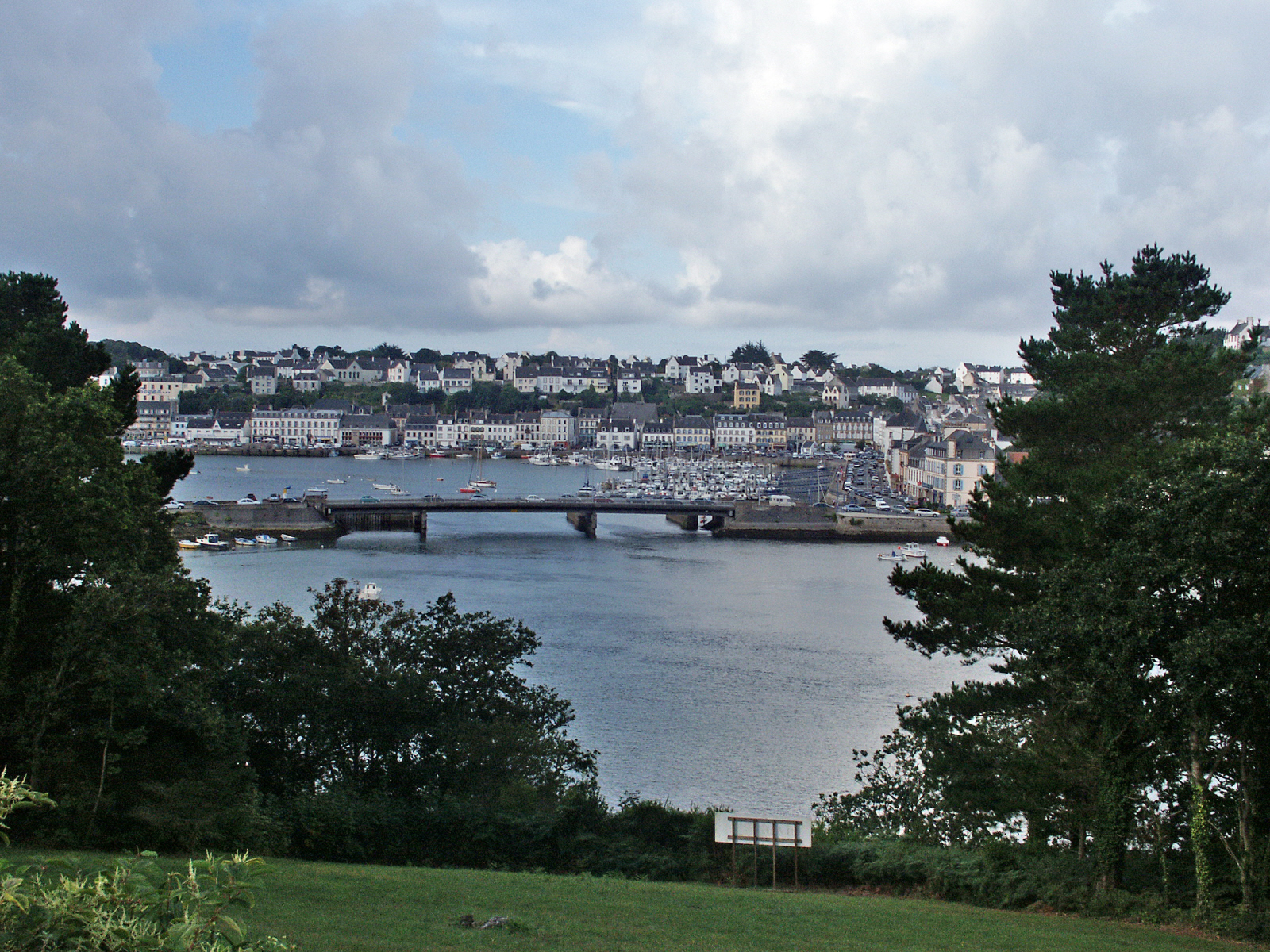 Audierne (Brittany, France)